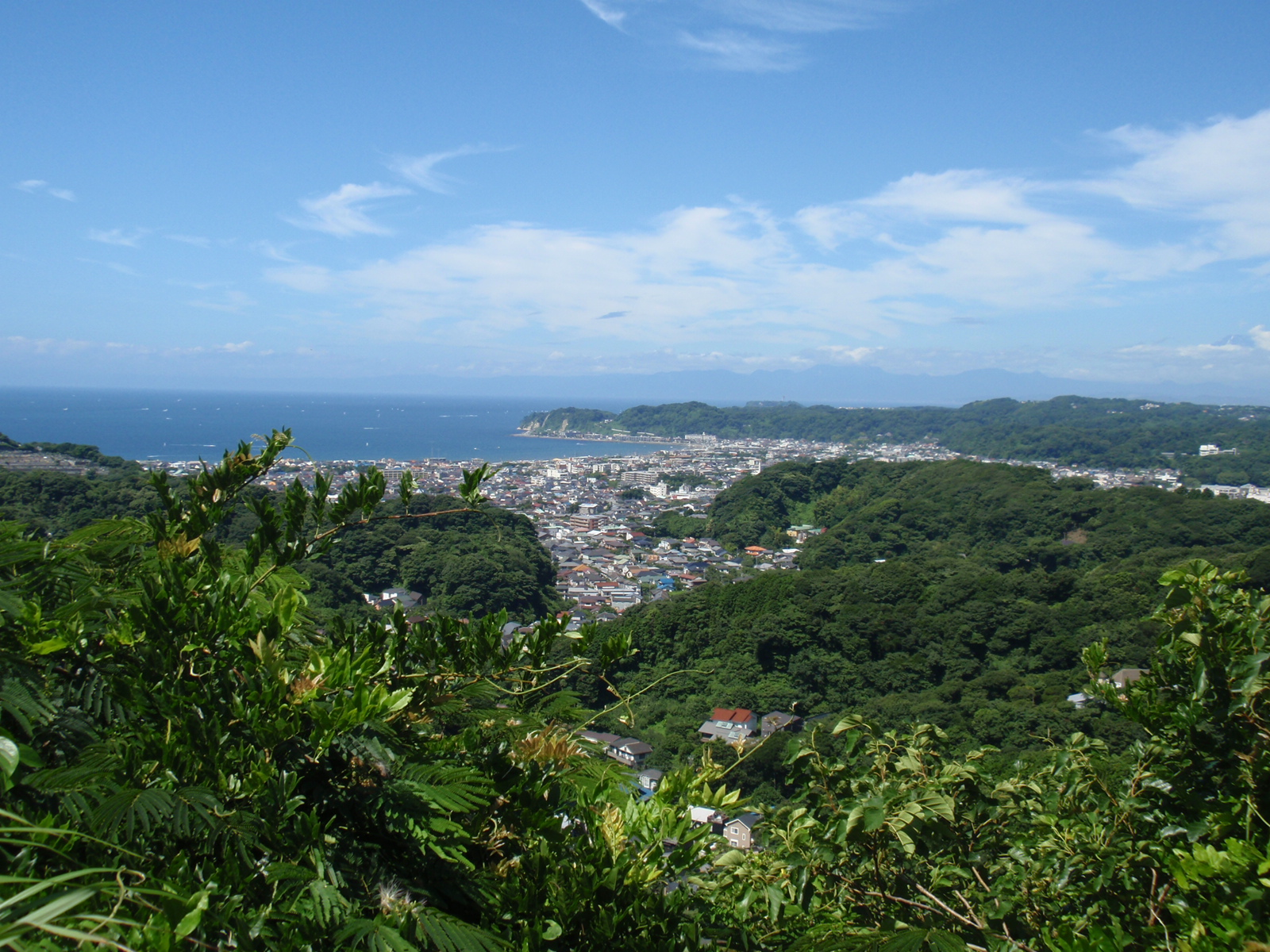 Top of Mt. Kinubariyama (衣張山） in kamakura Japan